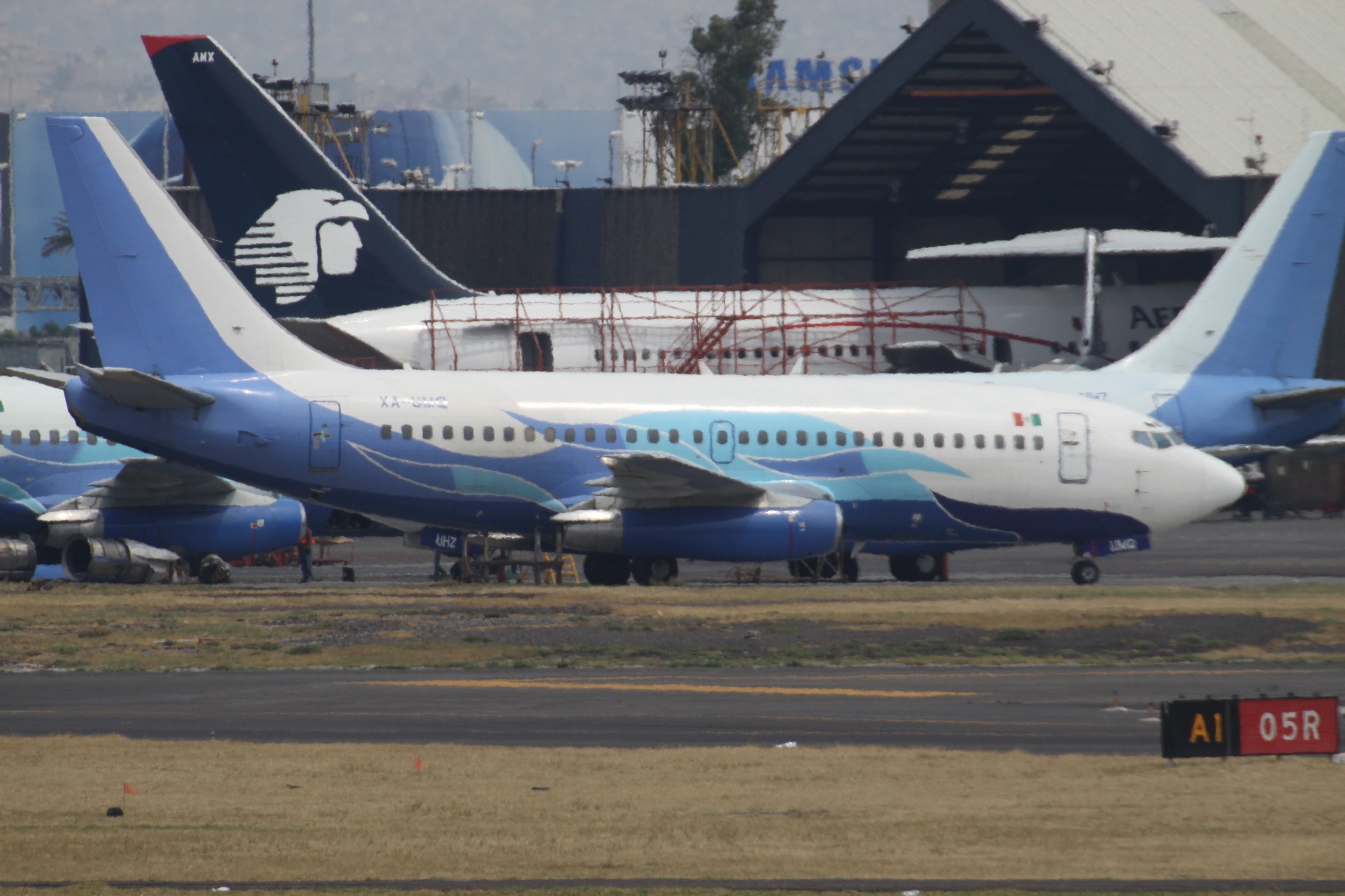 At Mexico City International Airport